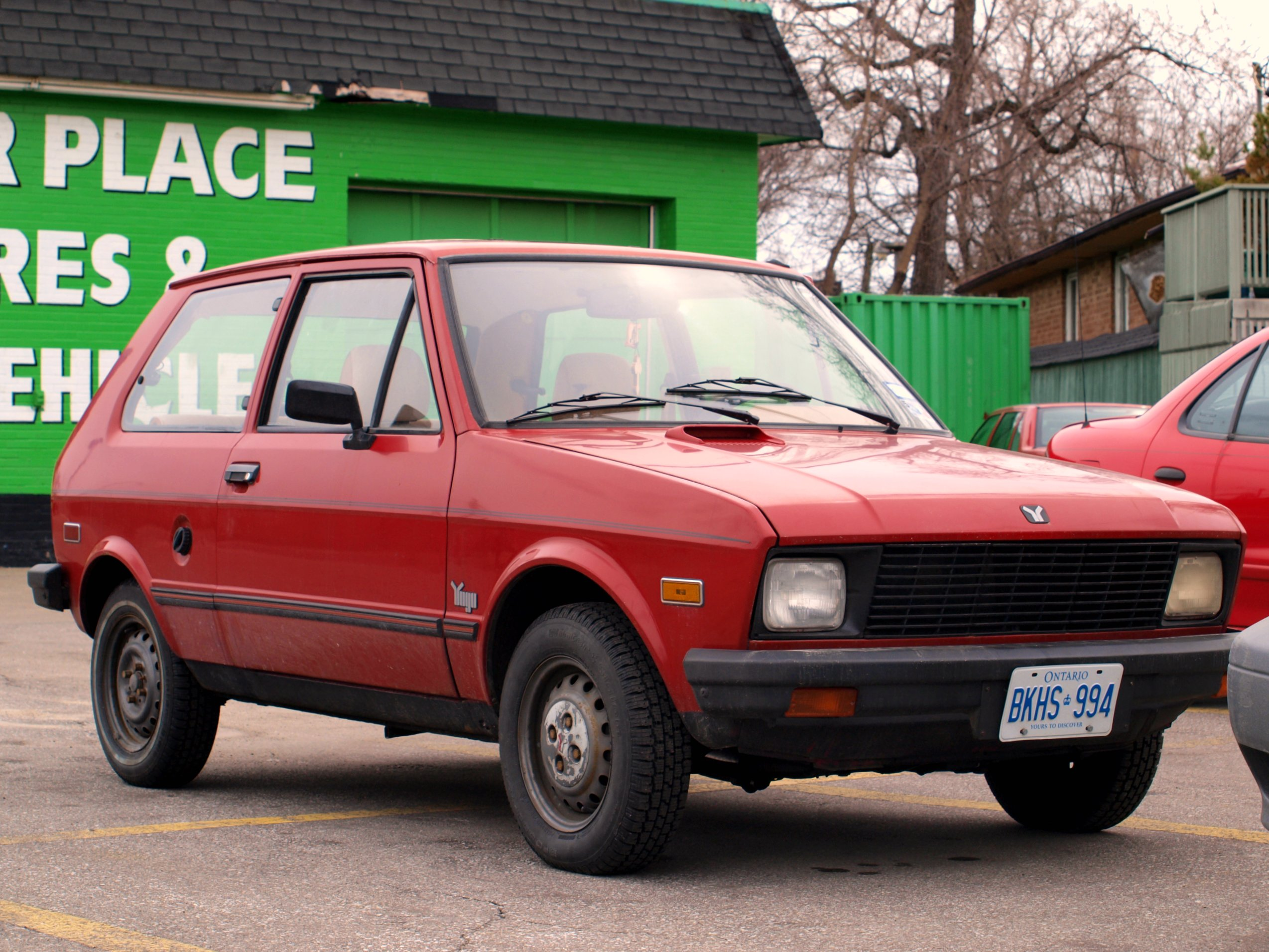 Red Yugo GV in Junction Triangle, Toronto, Canada.